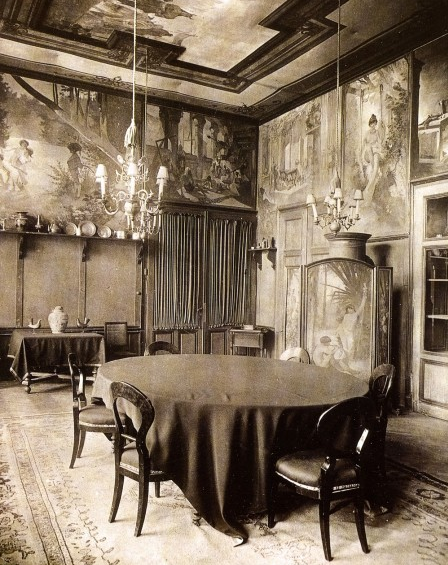 Interior view of Mucha's mural decorations at Emmahof castle